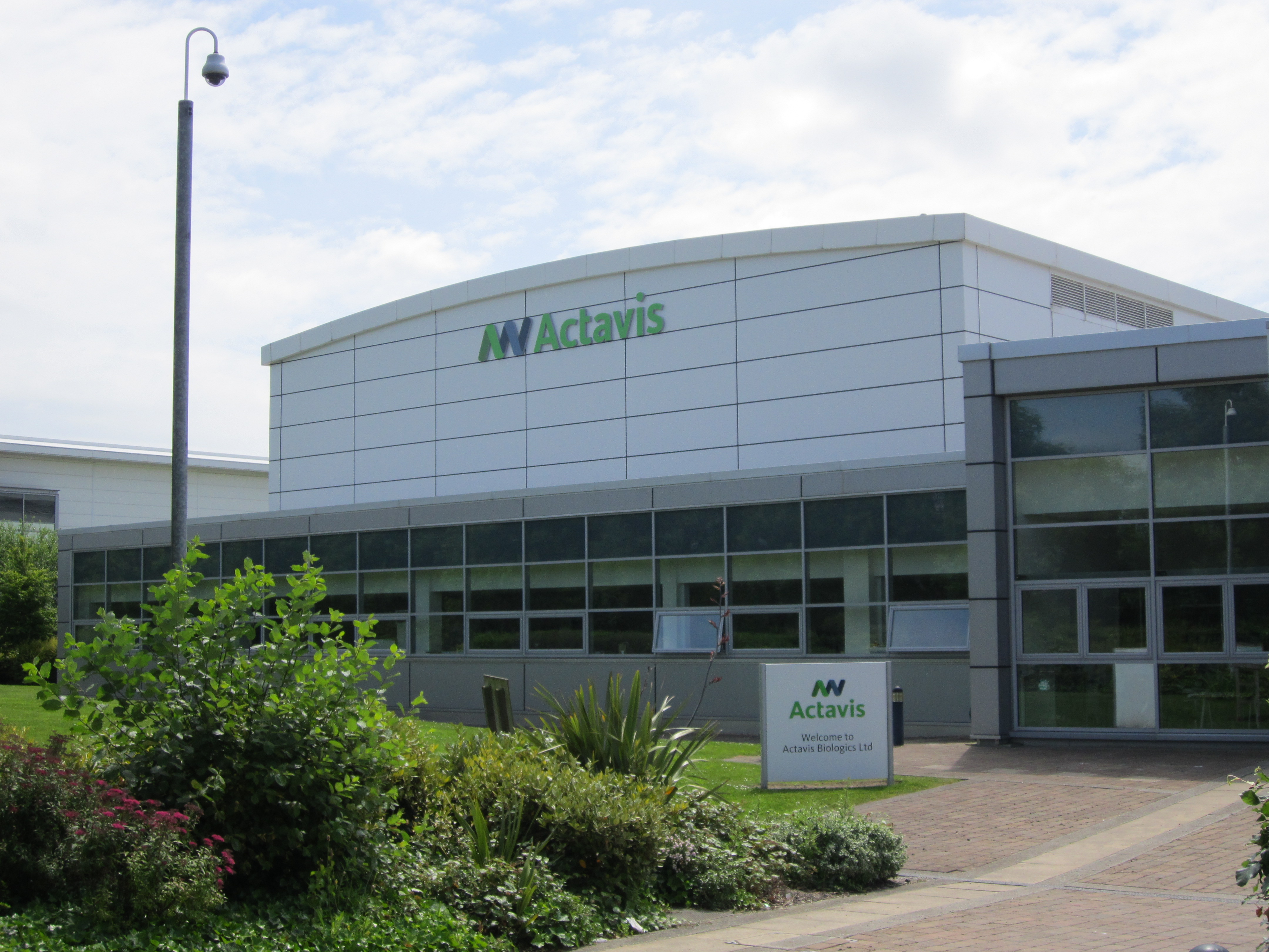 Actavis Biologics Ltd, Estuary Banks, Liverpool.